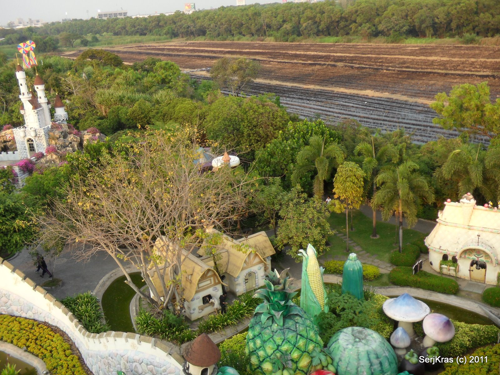 Bang Yitho, Thanyaburi District, Pathum Thani, Thailand